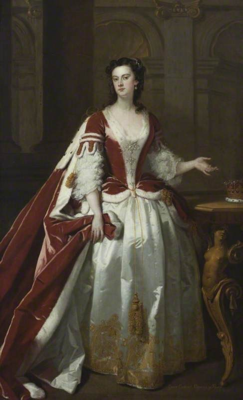 Portrait of Grace Carteret, Countess of Dysart (1713-1755)